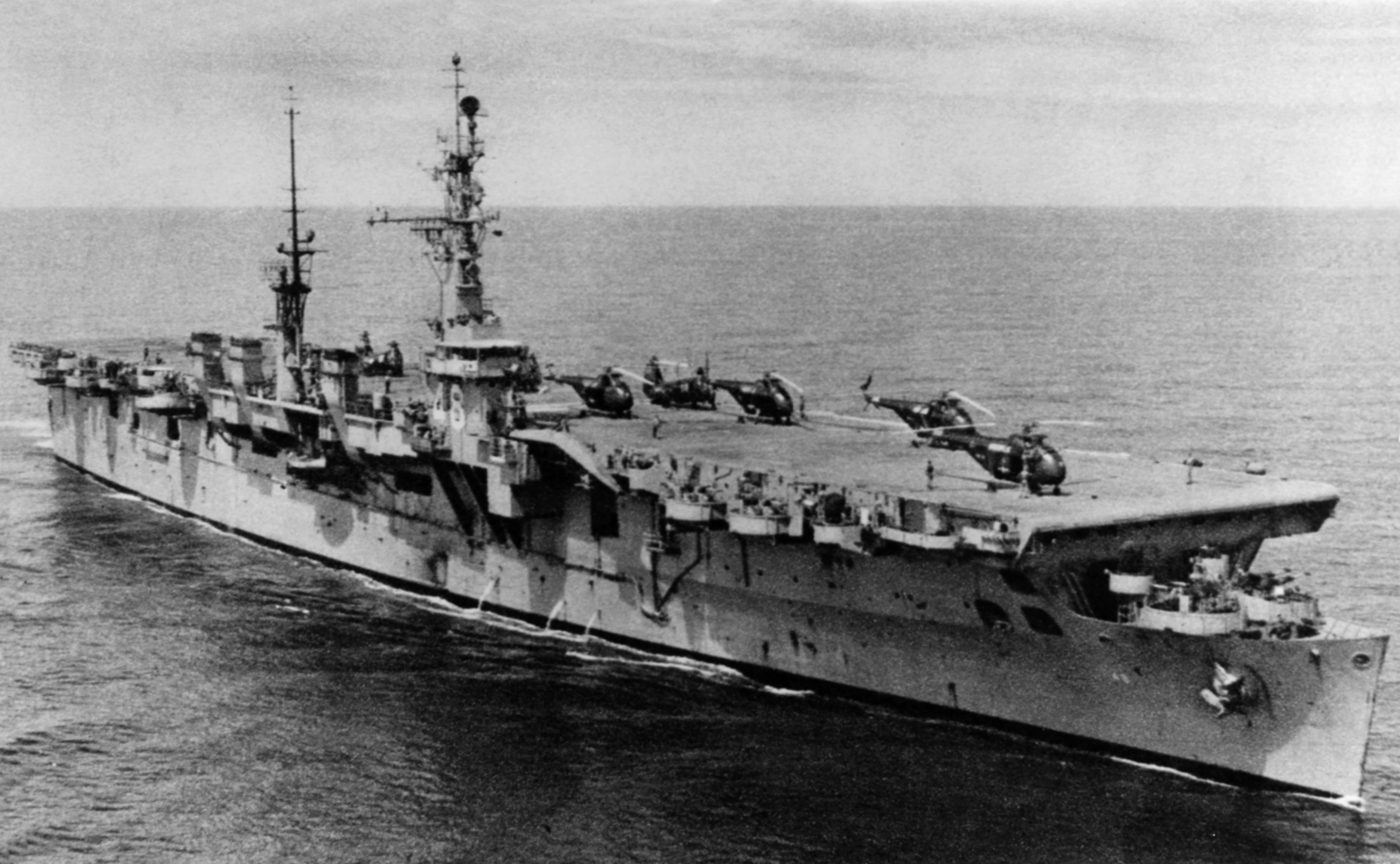 The U.S. Navy light aircraft carrier USS Saipan (CVL-48) with Sikorsky HRS and Piasecki HUP helicopters on her flight deck, circa the mid-1950s.